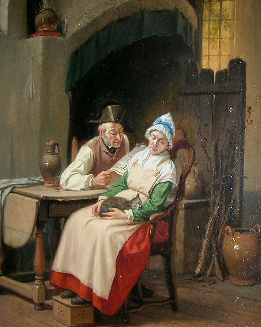 A very long story